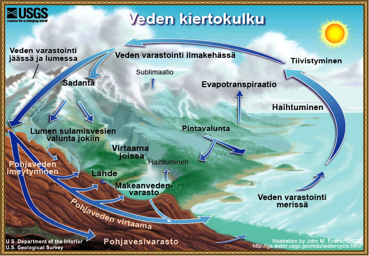 Water-Cycle diagram (in Finnish)